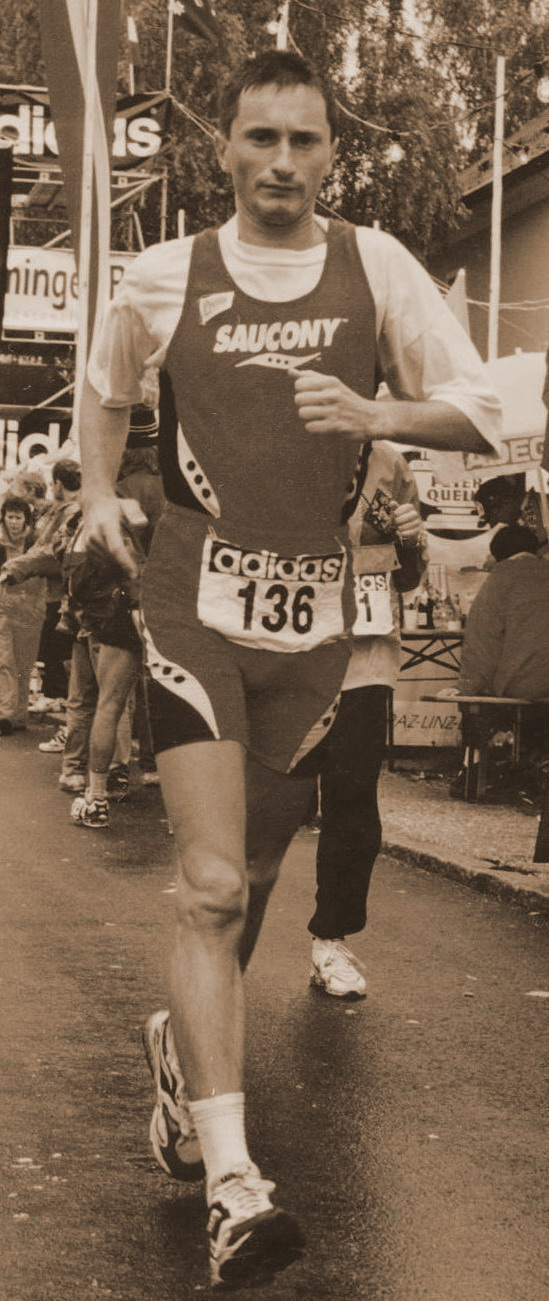 Ferenc Győri - European champion (1996)